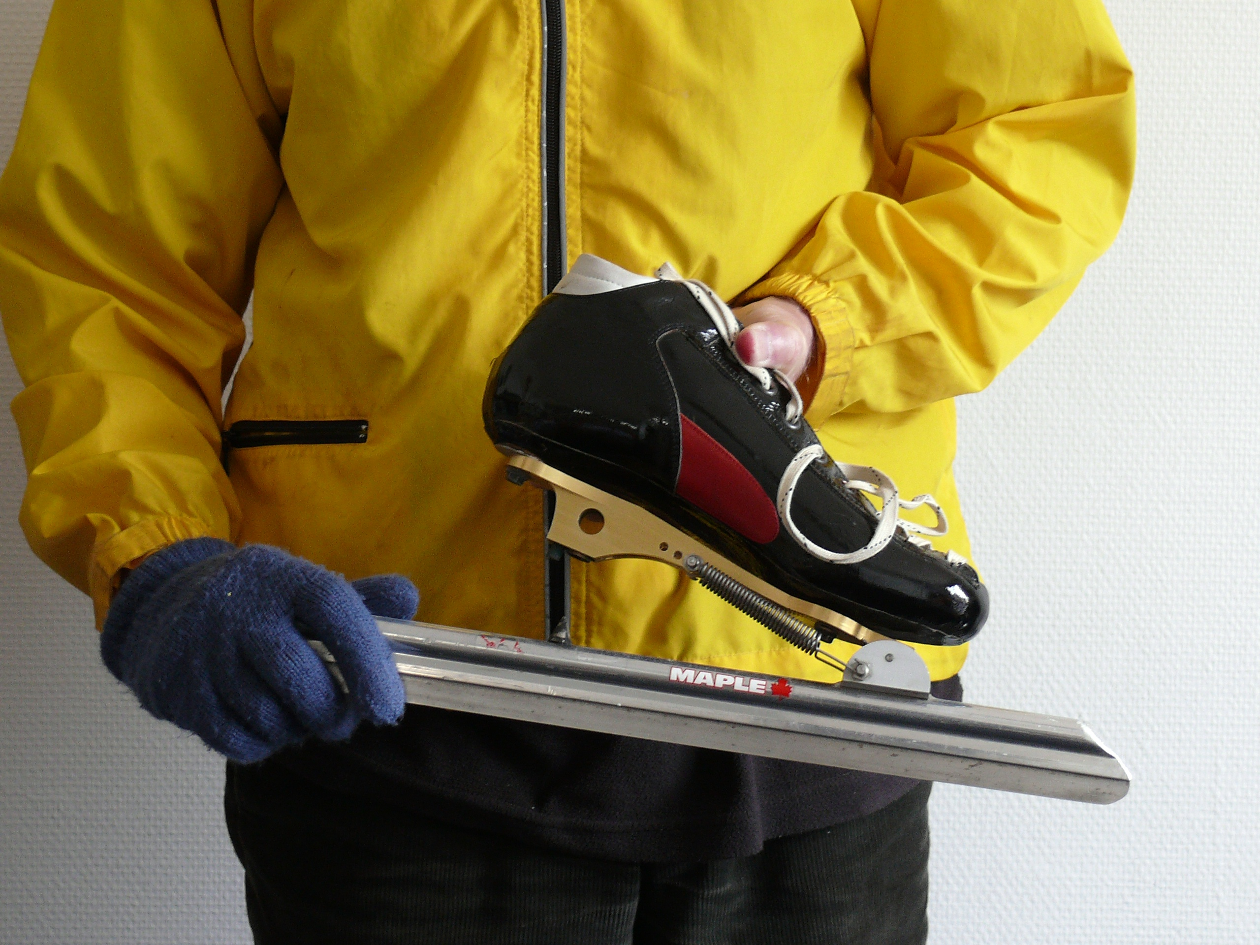 Max Dohle shows a clap skate